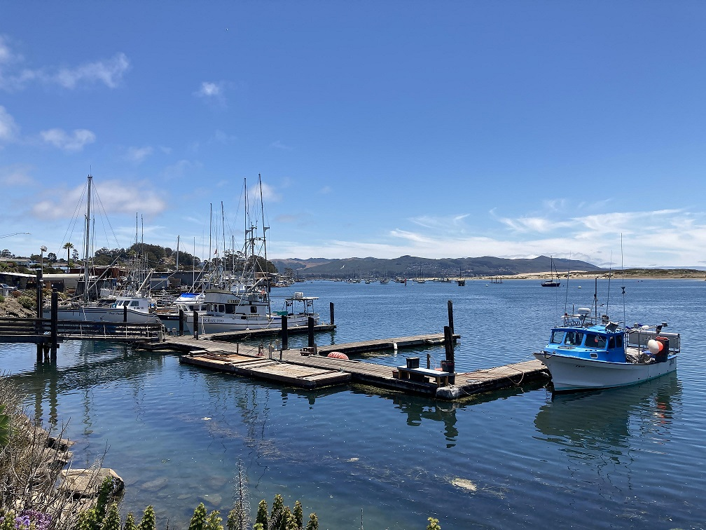 Picture showing Morro Bay's harbor